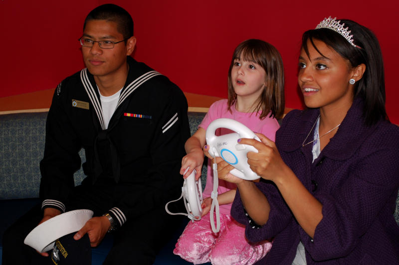 SPOKANE, Wash. (May 10, 2010) Airman Apprentice Mark Gonzales, left, from San Diego, assigned to USS Constitution, watches a patient and Myryda Johnson, a Lilac Festival Princess from Medical Lake High School in Medical Lake, Wash., play a video game at Sacred Heart Children's Hospital. Gonzales and Johnson handed out ball caps to patients during Spokane Navy Week, held in conjunction with the Spokane Lilac Festival. Spokane Navy Week is one of 20 Navy Weeks planned across America for 2010. Navy Weeks show Americans the investment they have made in their Navy and increase awareness in cities that do not have a significant Navy presence. (U.S. Navy photo by Senior Chief Mass Communication Specialist Susan Hammond/Released)